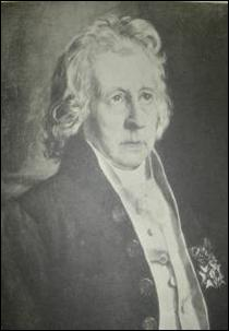 Jean-François Gendebien (1753-1838)